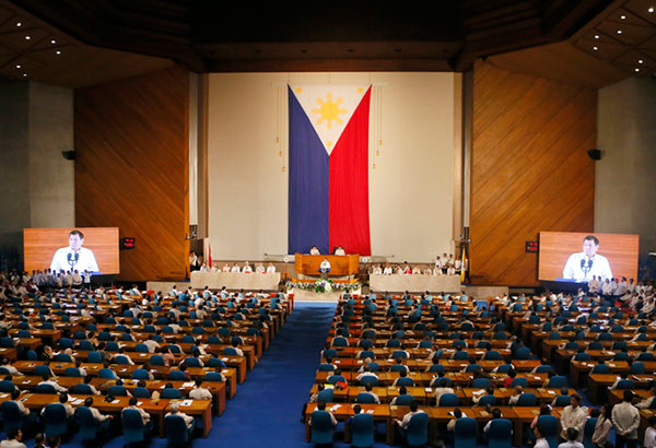 President Rodrigo Duterte delivers the 2016 State of the Nation Address (SONA) to a joint session of the Congress of the Philippines.